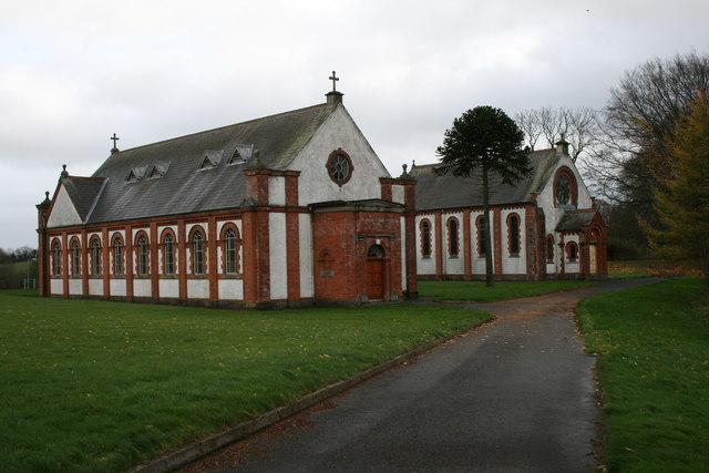 Churches, St Davnet's Hospital, Monaghan